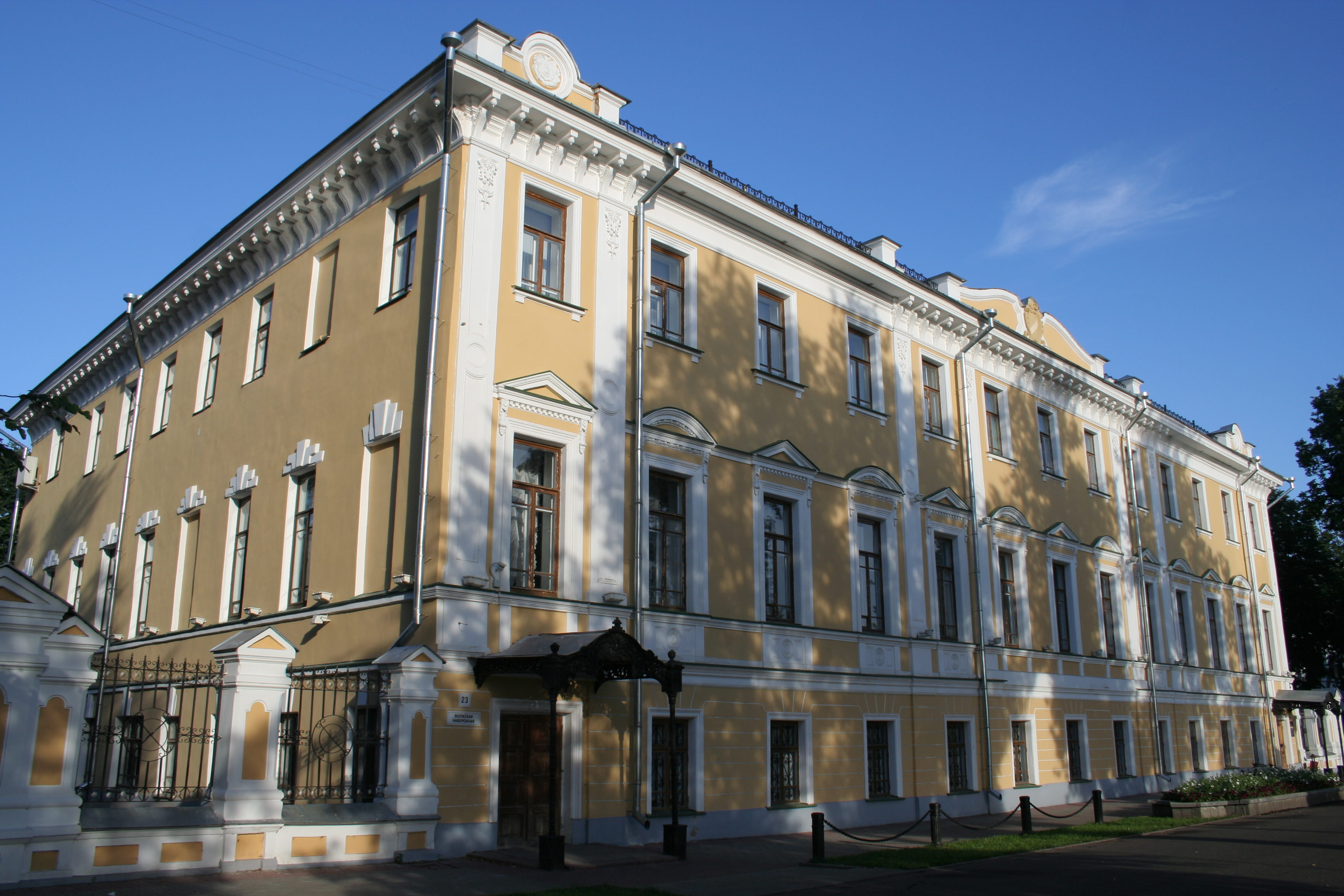 The building of the Yaroslavl Museum of Arts in Yaroslavl, Russia